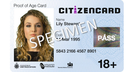 CitizenCard photo ID card for under 18+